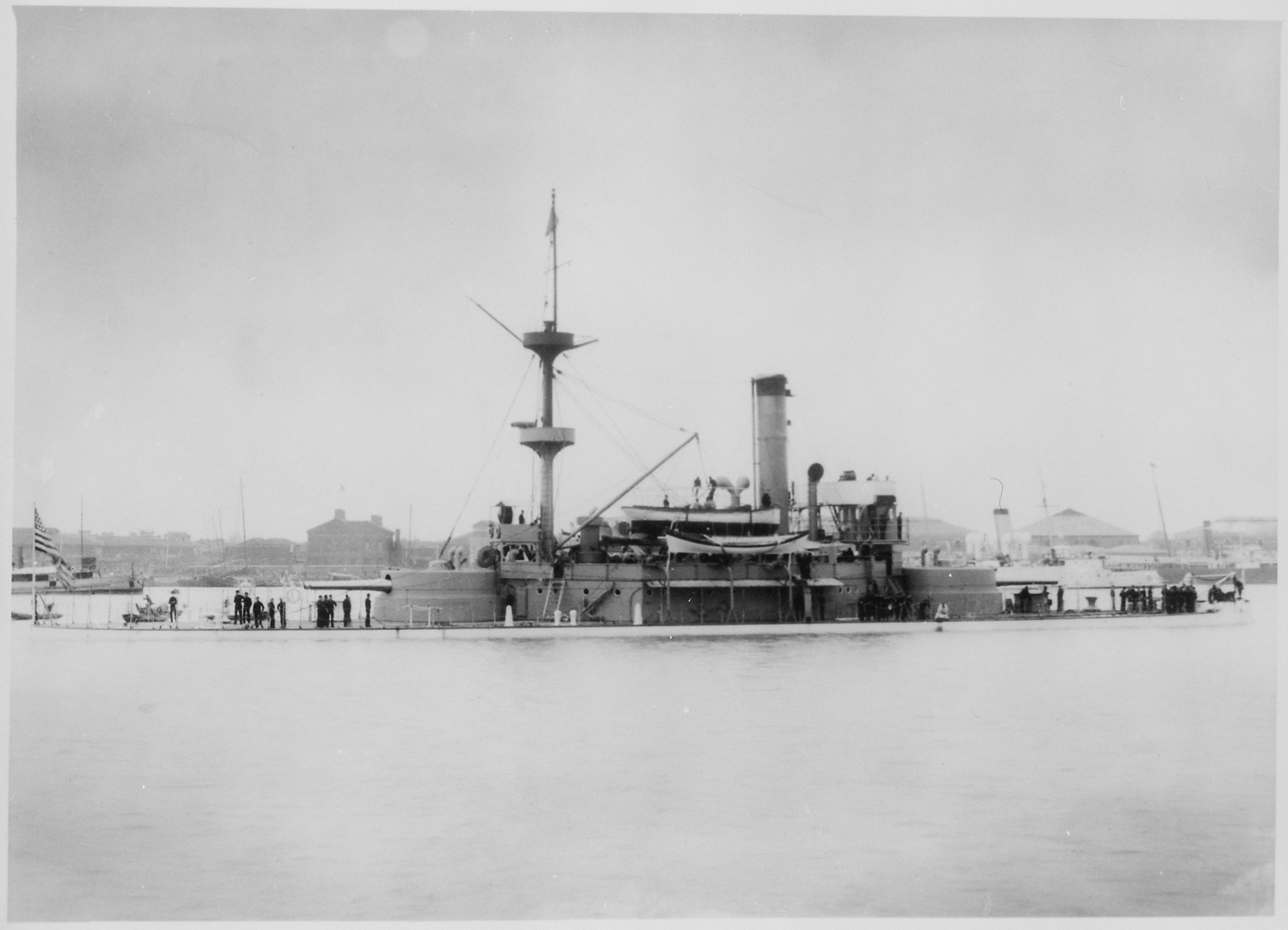 Scope and content: The Monadnock, an Iron-hulled monitor, was commissioned in 1896.